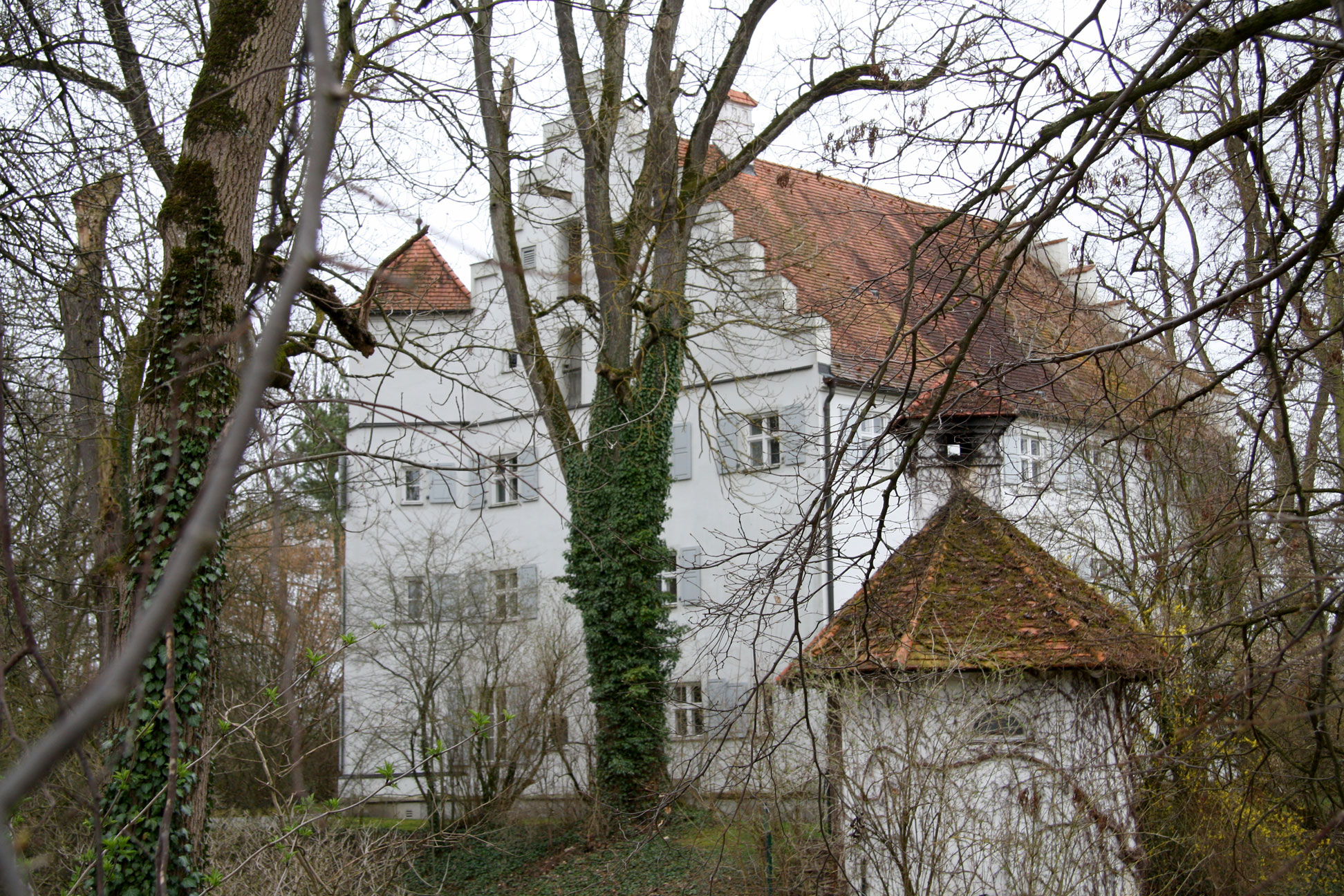 Notzing castle, seen from north-east